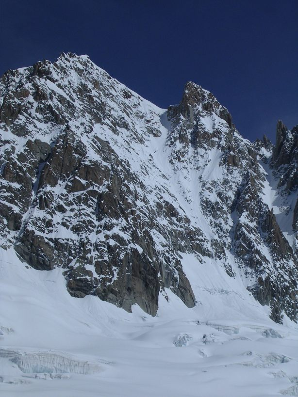 Aiguille Verte - South face